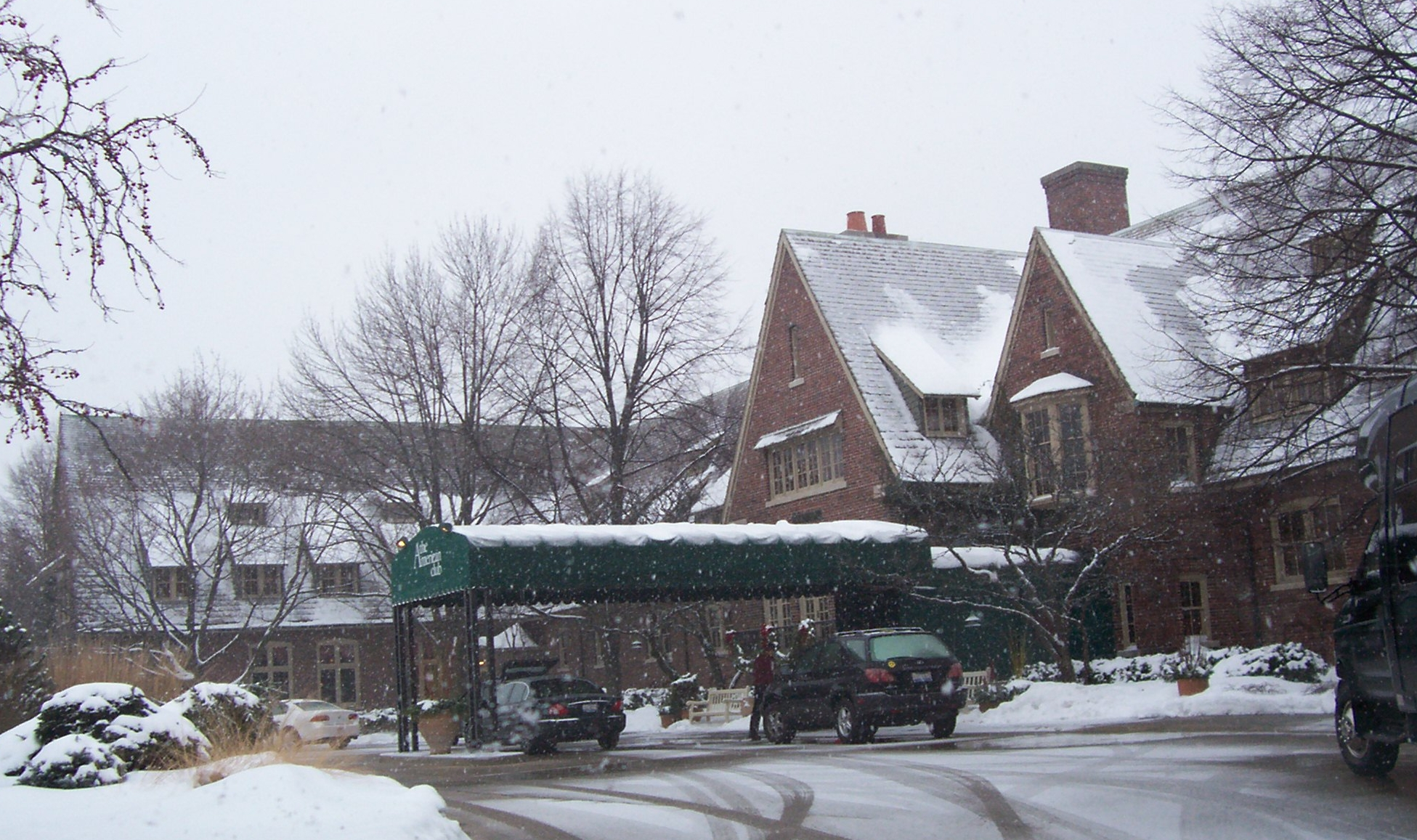 The entrance for the American Club in Kohler, Wisconsin, USA on a snowy day.